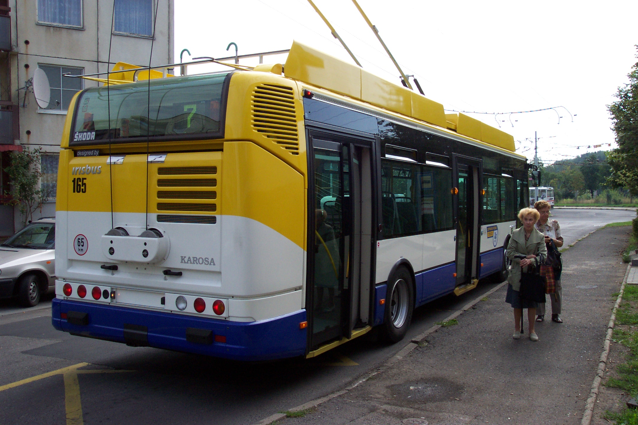 Teplice, Czech republic, trolleybus type 24Tr - Teplice, trolejbus typu Škoda 14Tr